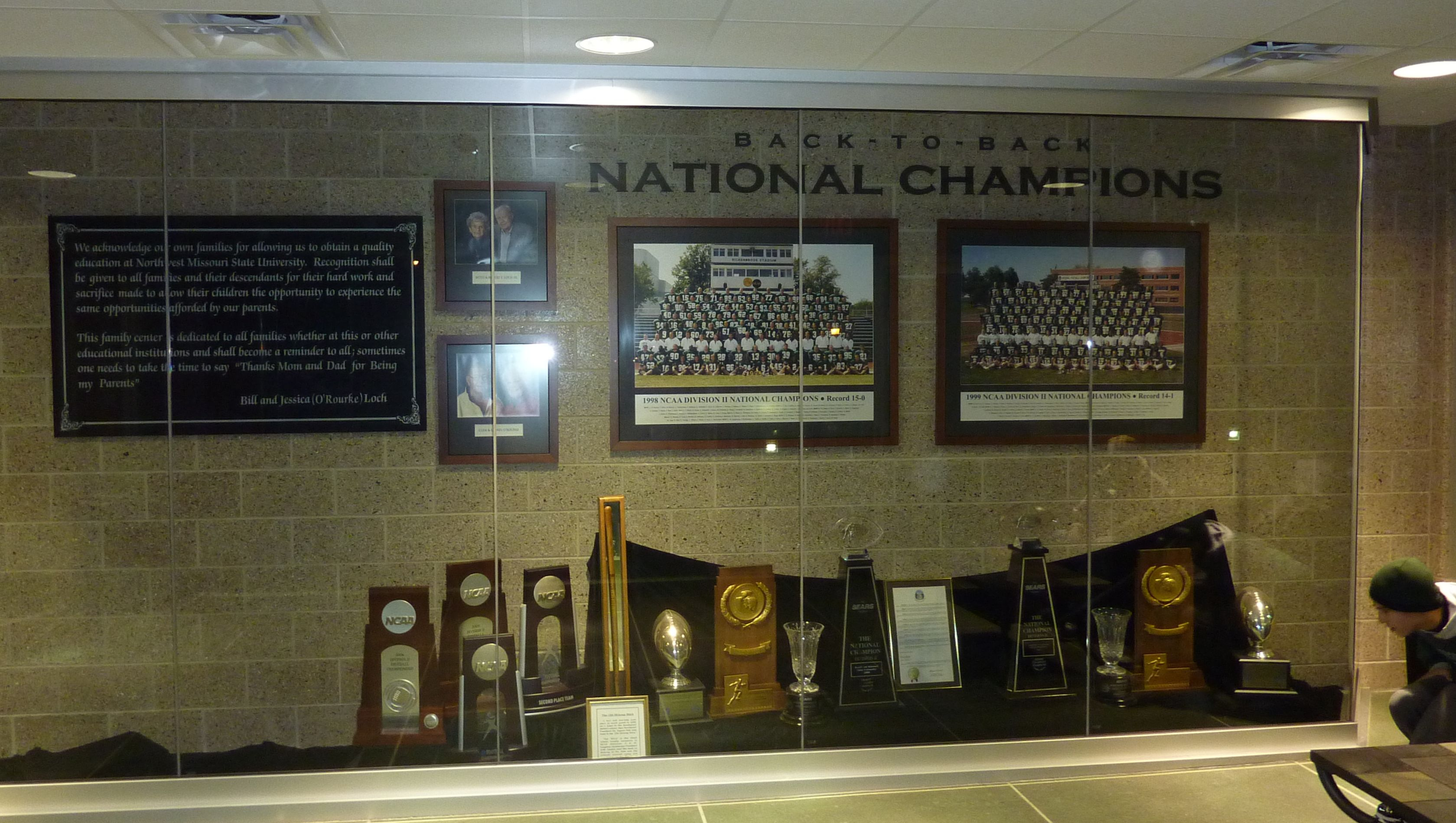 NCAA Division II football national championship trophy room for Northwest Missouri State University in 2009 prior to its record fifth consecutive appearance in a national championship game. The two trophies in the center are the 1998 and 1999 national championships. The four trophies on the left are the runner up trophies for 2005, 2006, 2007 and 2008. The tall stick is the Hickory Stick trophy with Truman State University.